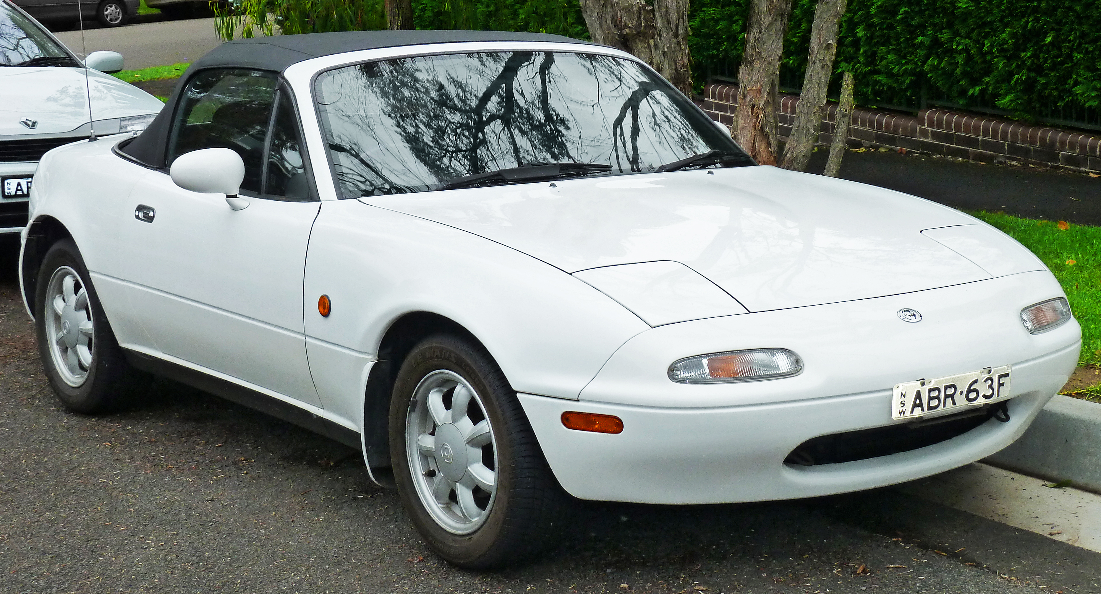 1993 Mazda MX-5 (NA) roadster. Photographed in Lindfield, New South Wales, Australia.